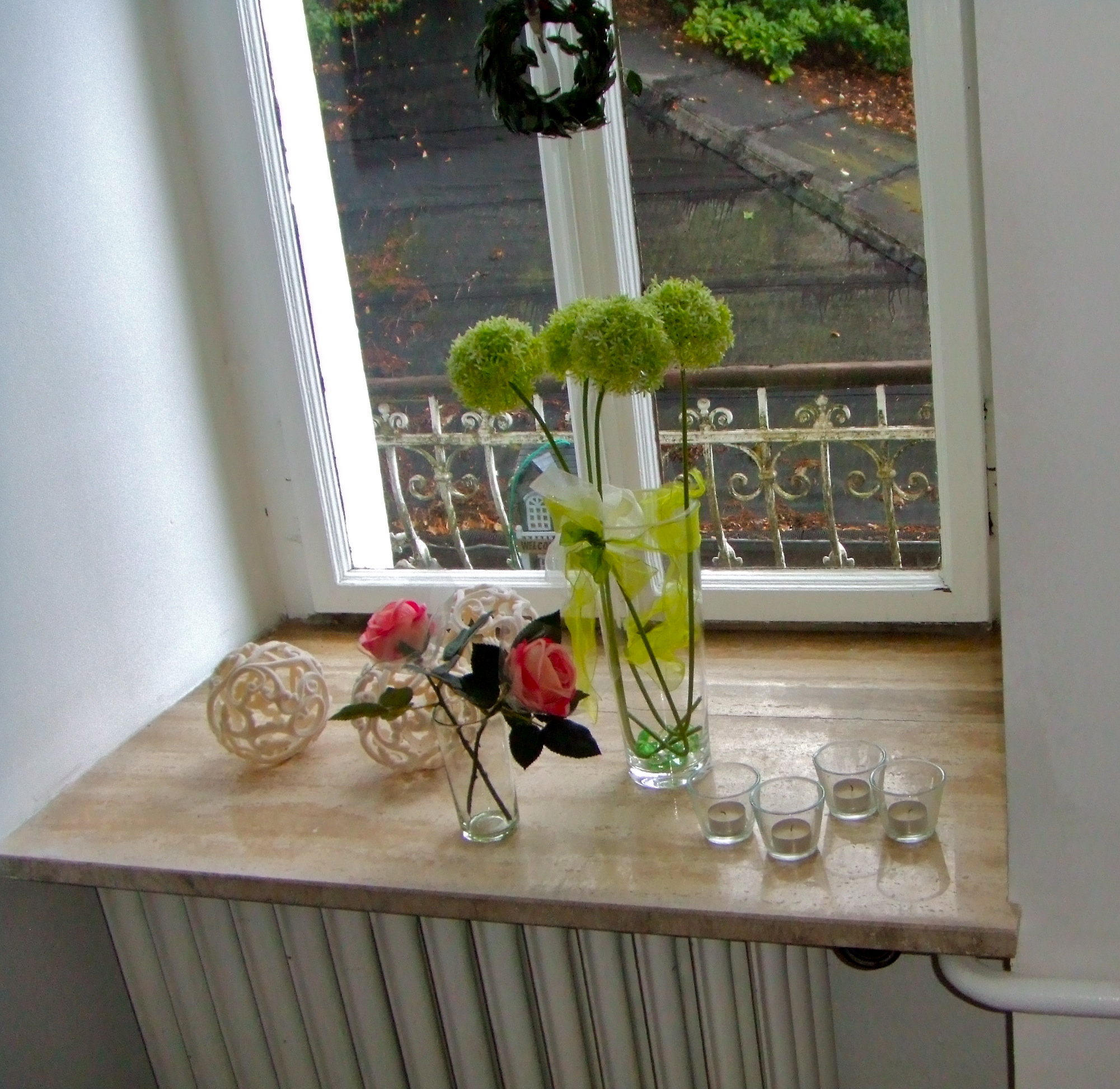 Old heating element under new window sill.